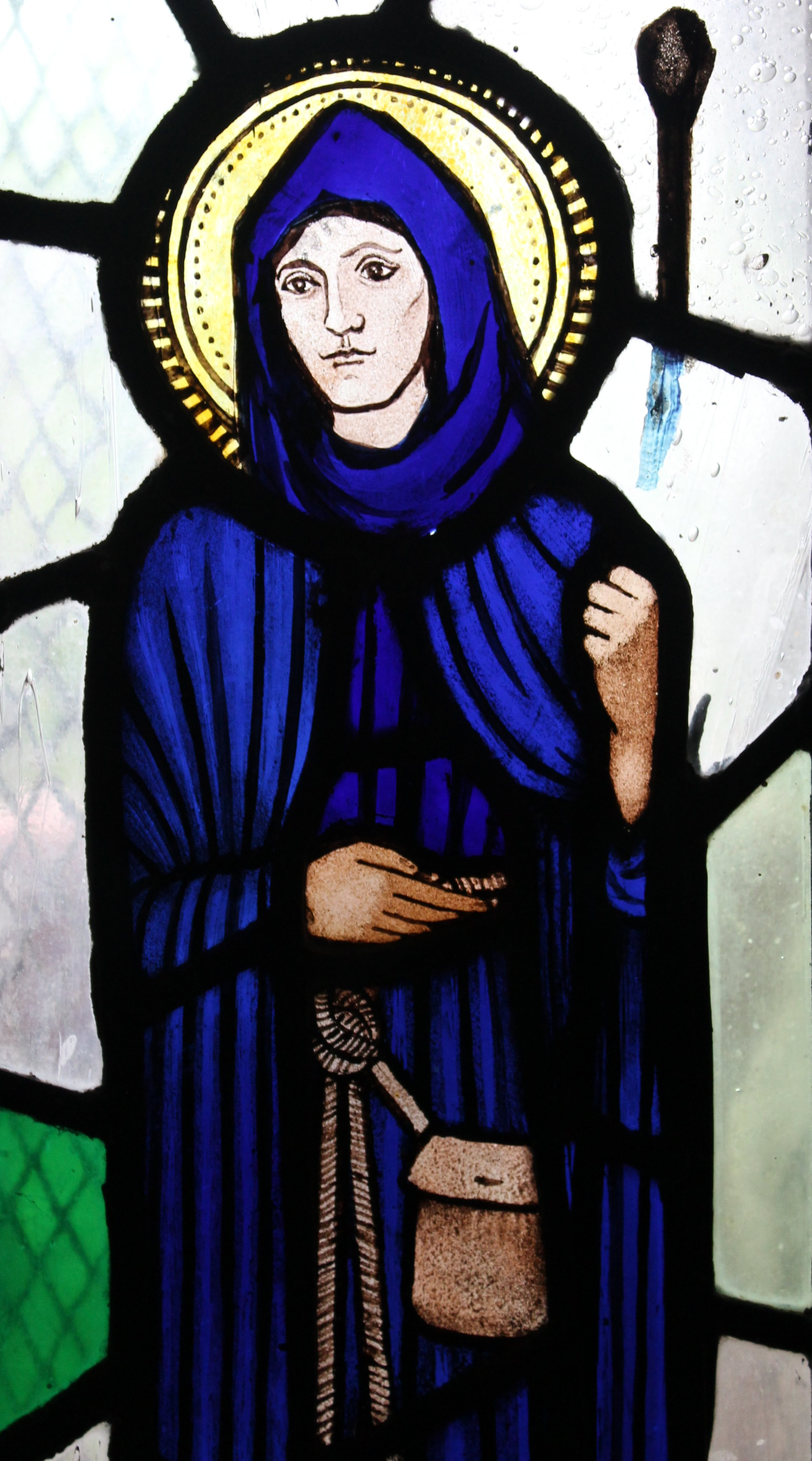 St Trillo's Church, Betws yn Rhos (Rhos-on-Sea), Llandrillo, Conwy Borough Council. Smallest church in Britain. St Eilian.